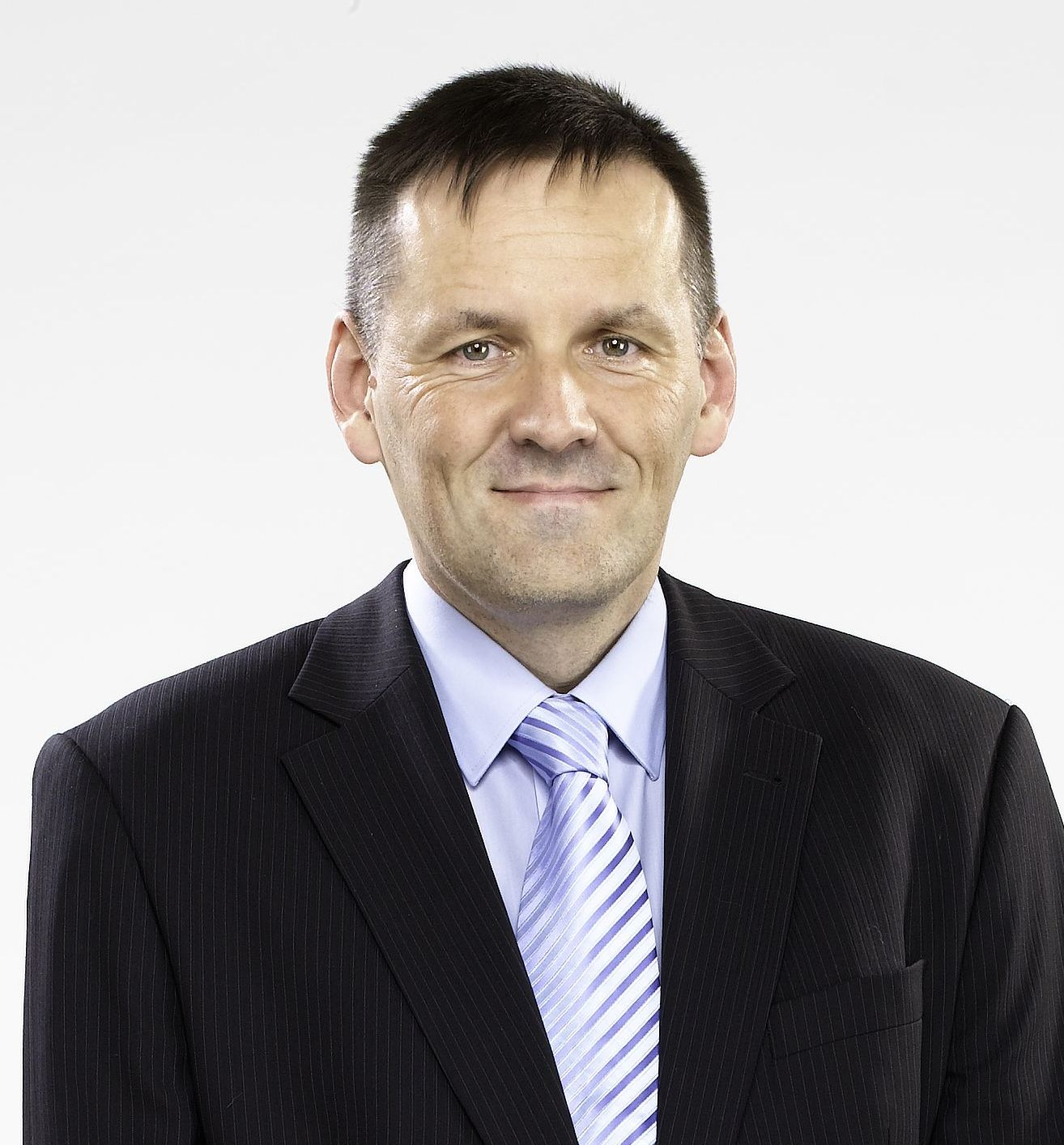 János Volner a politican